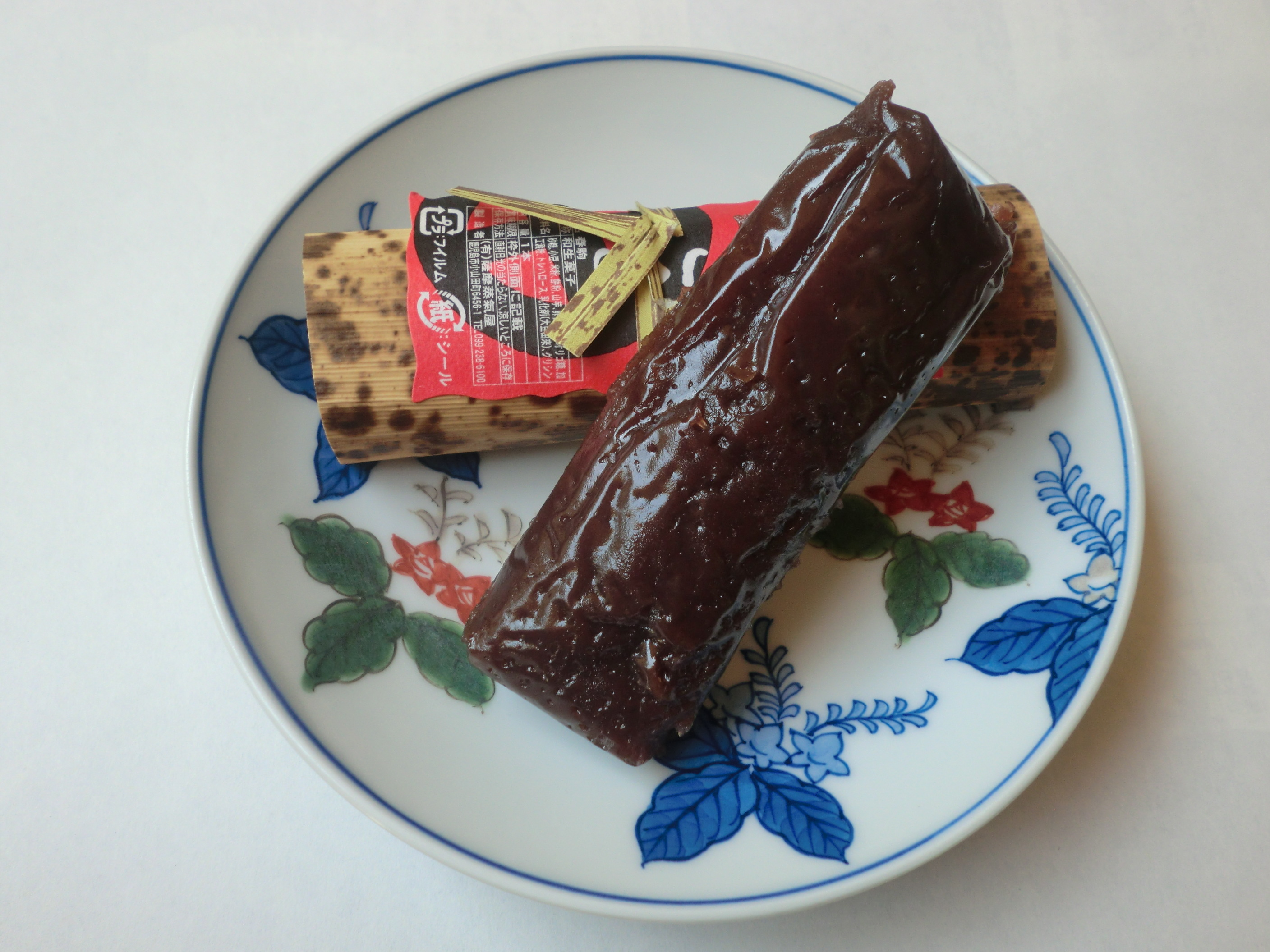 Harukoma,confectionery of Kagoshima,Japan.